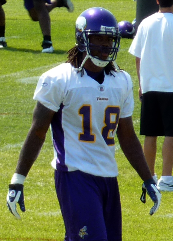 Sidney Rice, while a member of the Minnesota Vikings, at the Vikings' 2009 Training Camp, Mankato, Minnesota, USA.